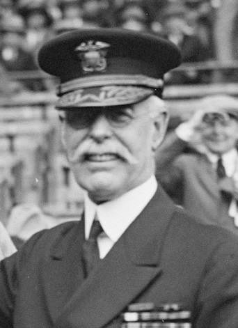 Jacob Ruppert & Admiral Charles Peshall Plunkett, Commandant of Brooklyn Navy Yard (baseball)